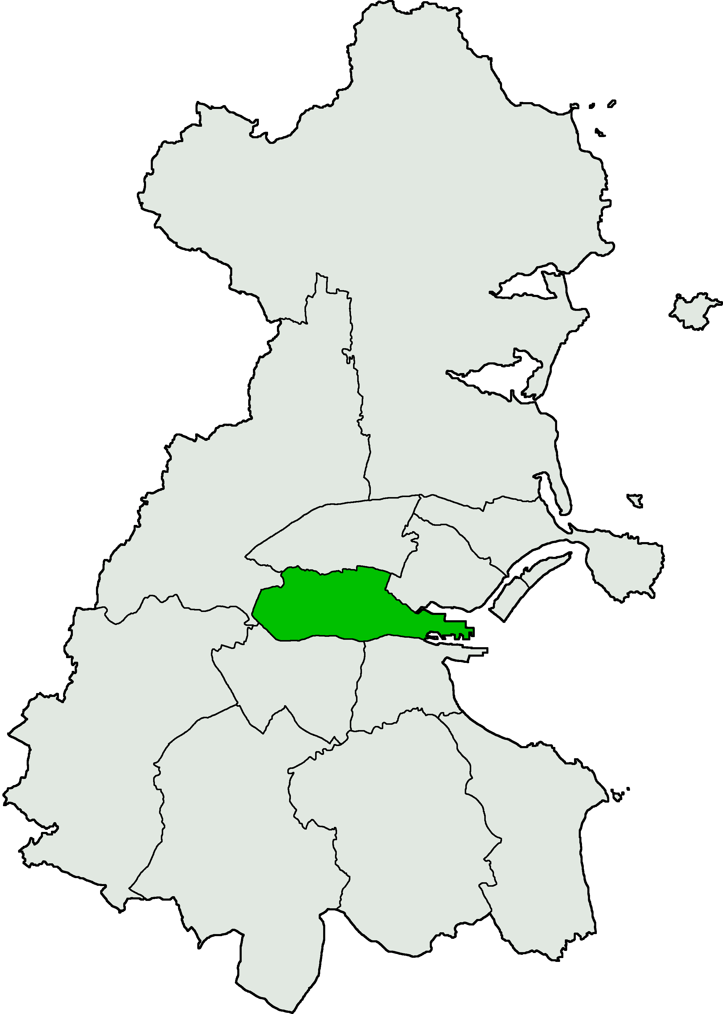 Category:Maps of Dublin